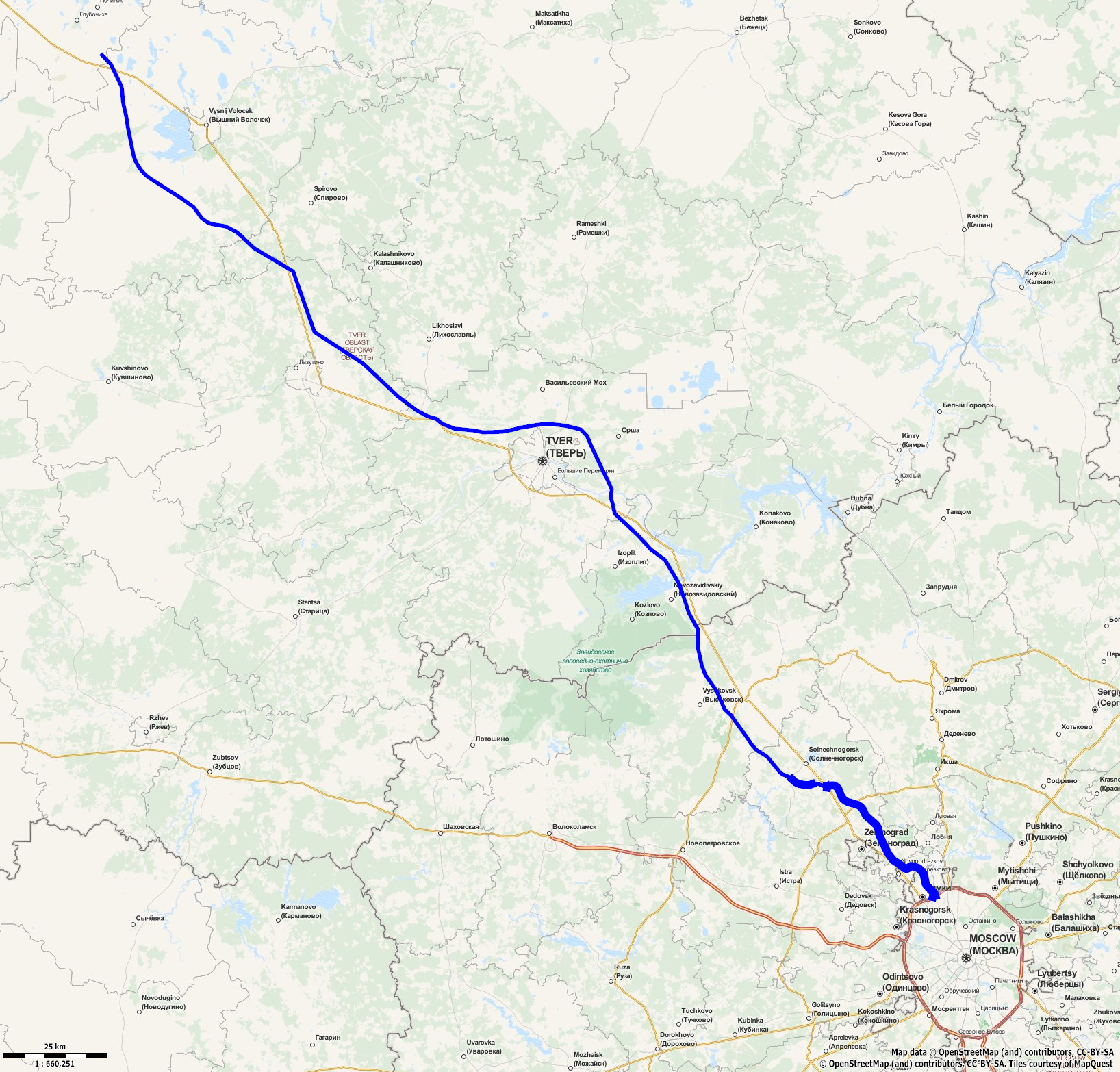 Map of construction Moscow – Saint Petersburg motorway. This map may be incomplete, and may contain errors. Don't rely solely on it for navigation.